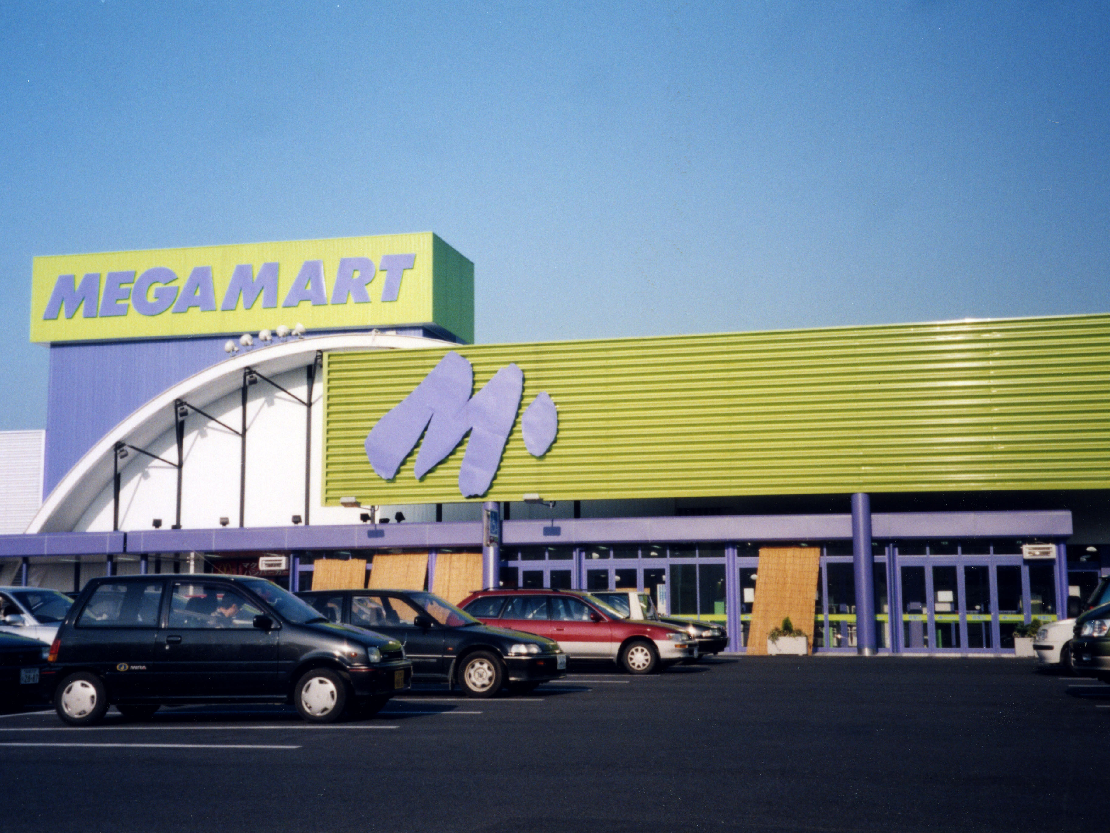 MEGA MART Geino,Geino Tsu-City Mie Japan.